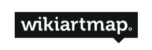 Logo WikiArtMap the first digital map of world art, creation and historical and cultural heritage